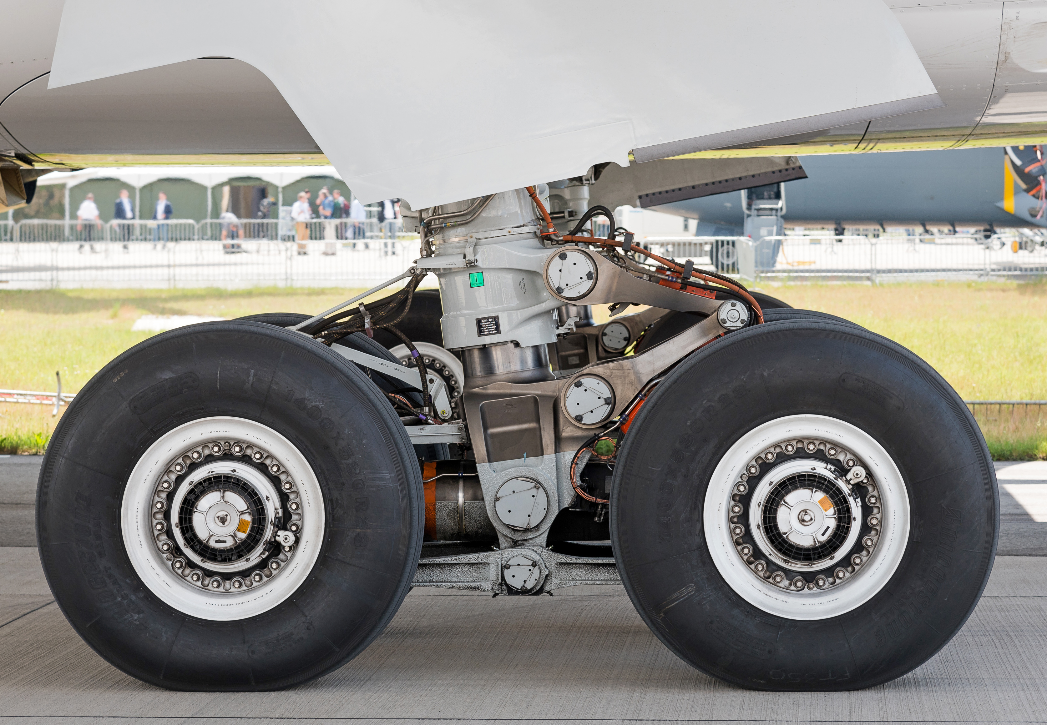 Airbus A350-941 (reg. F-WWCF, MSN 002) main landing gear at ILA Berlin Air Show 2016.